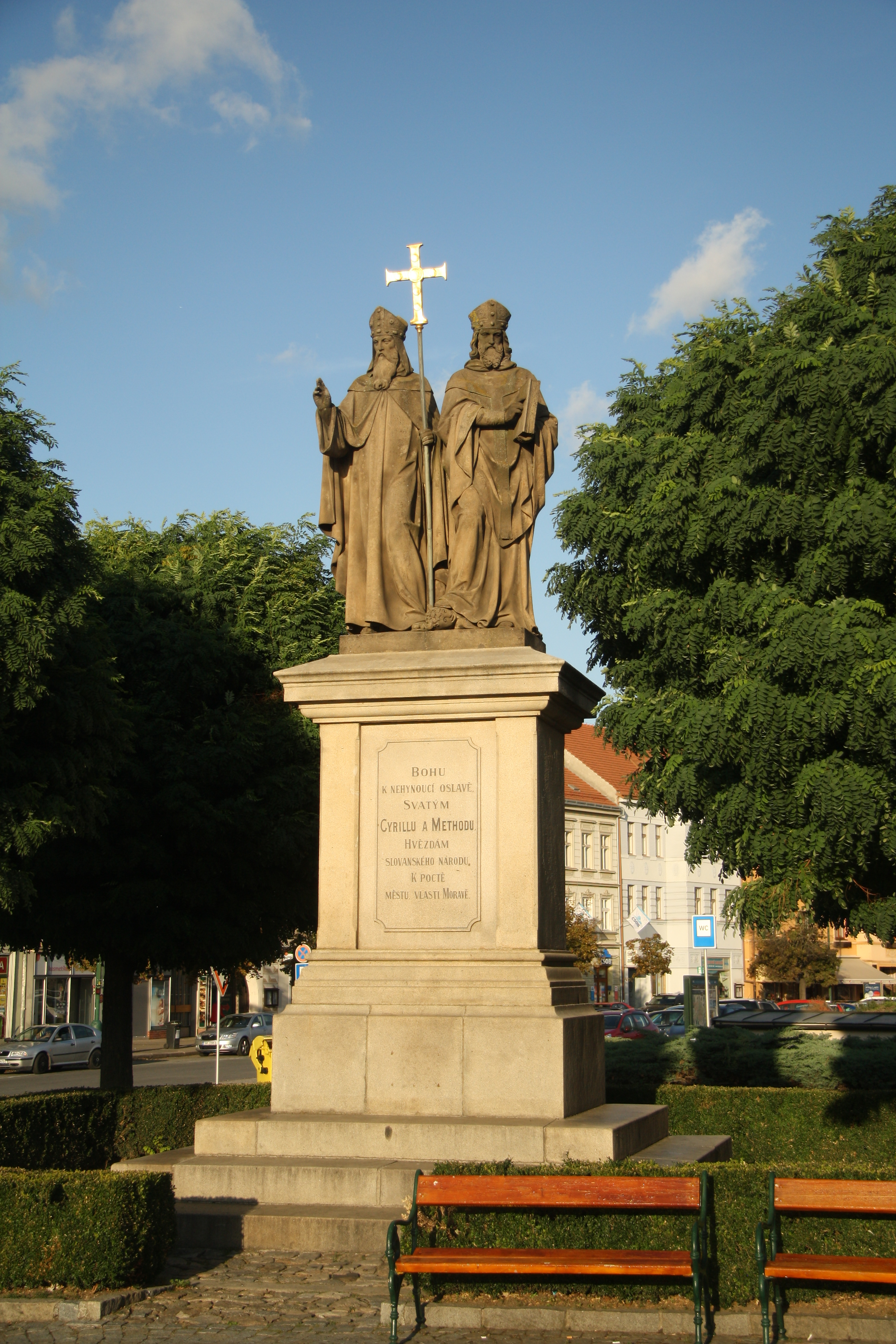 Statue of Saints Cyril and Methodius in 2017 in Třebíč, Třebíč District.